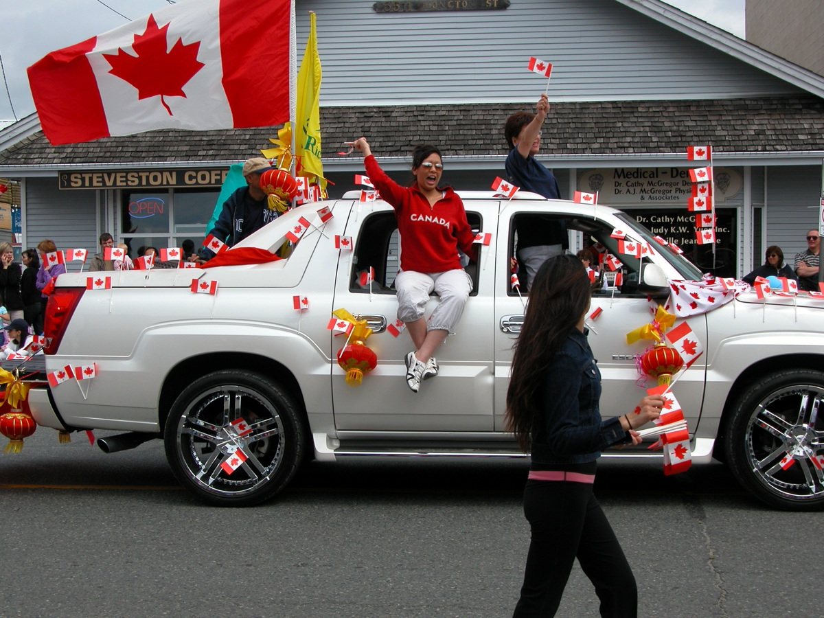 Canada Day in Richmond, British Columbia, Canada